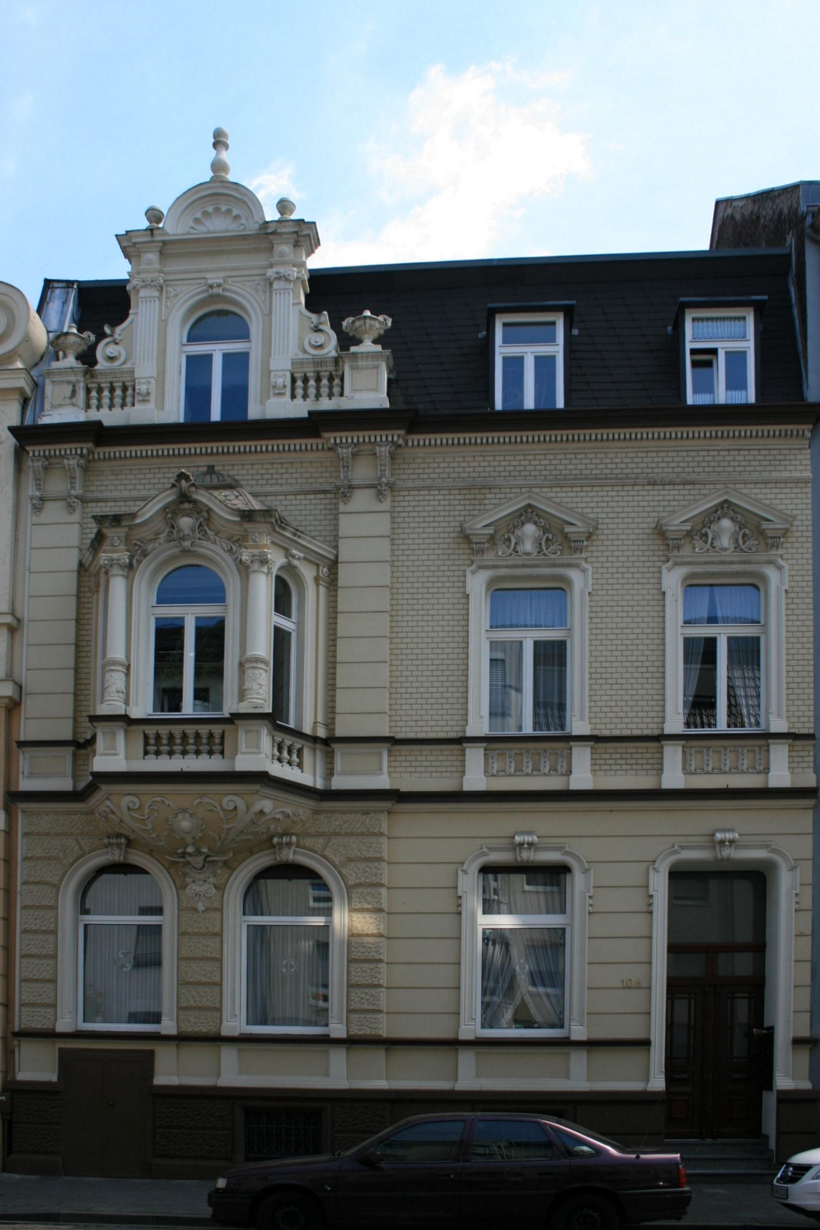 Cultural heritage monument No. K 028 in Mönchengladbach